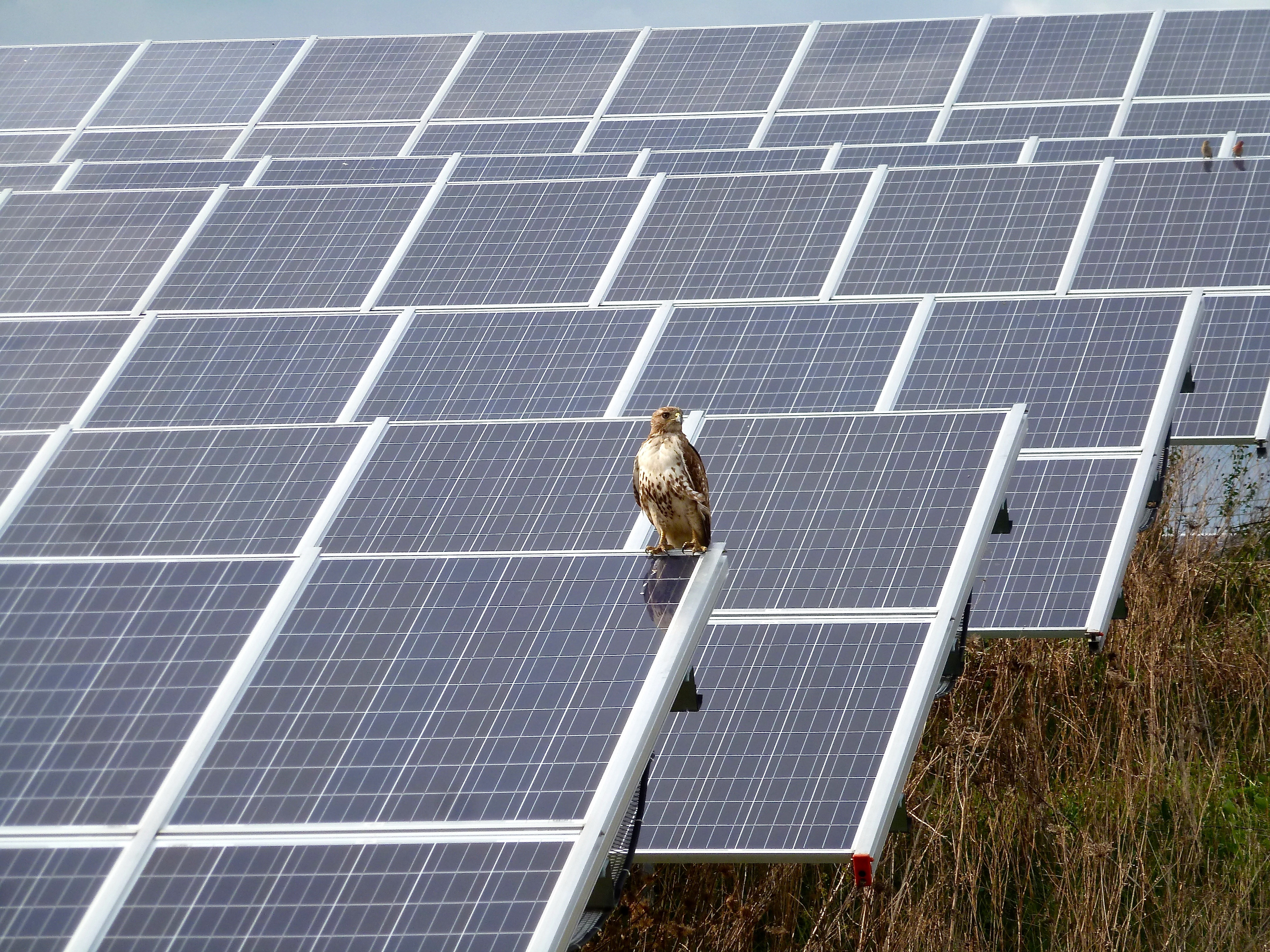 Red-tailed Hawk. She’s comfortable watching what’s happening in Ann Arbor, Michigan. Solar arrays at by the University of Michigan. North Campus Research Complex